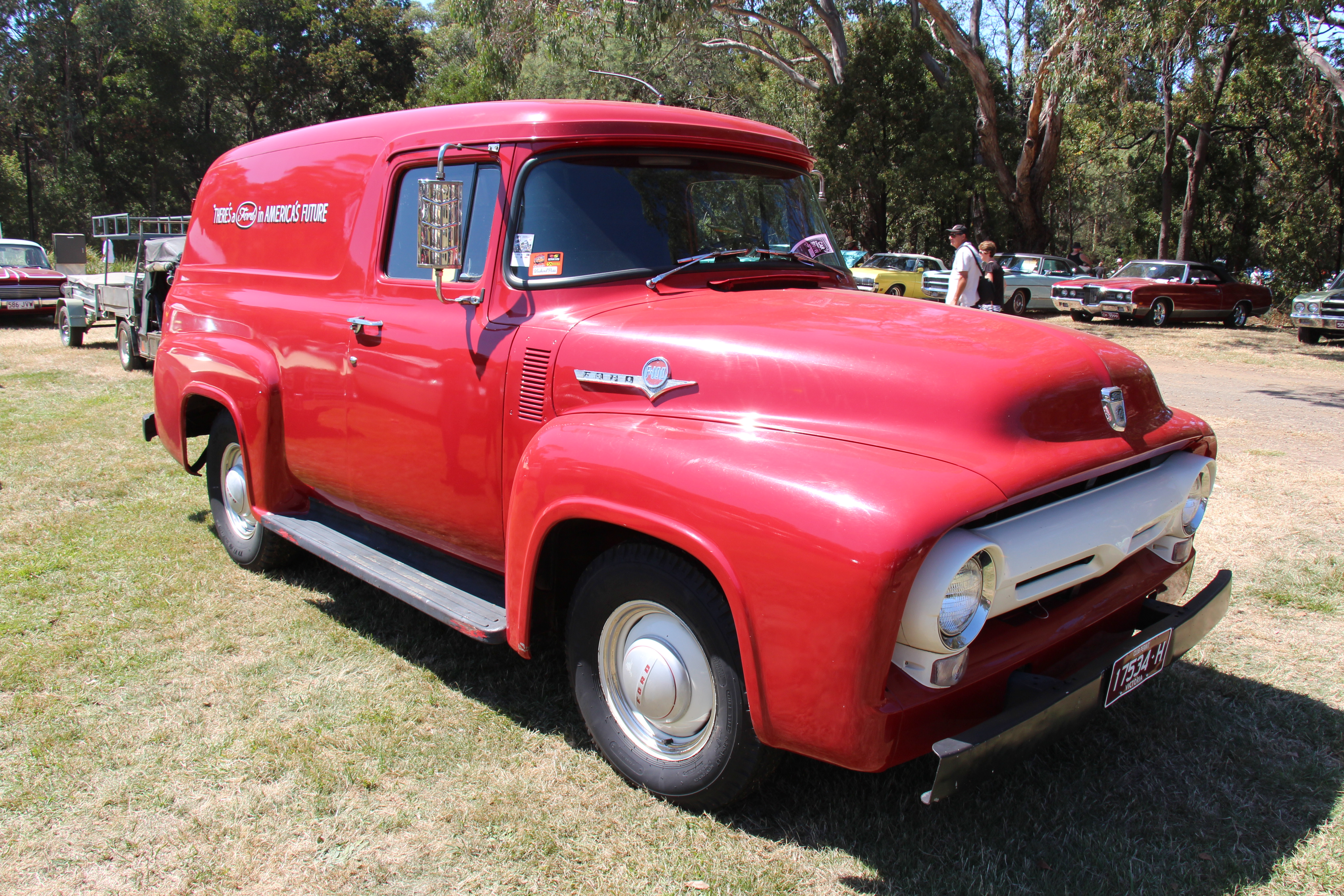 Torch Red. In 1953 The F-1 Pickup became the F100. The 1956 F-100 is a one-year only body style. It is easily identified as it has vertical windshield pillars and a wrap around windshield as opposed to the sloped pillars and angled windshield of the 1953-55. Available in Standard Cab or Custom Cab, the Custom Cab got better seats, sunvisors, Custom Cab badge below the window on the door. It was available in 2 door Pickup or 4 door Panel Truck. Engines: 223 6 cyl or 272 Y block V8.